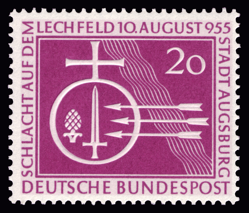 1000th anniversary of the battle on the "Lechfeld" close to Augsburg Graphics by Göhlert Ausgabepreis: 20 Pfennig First Day of Issue / Erstausgabetag: 10. August 1955 Michel-Katalog-Nr: 216